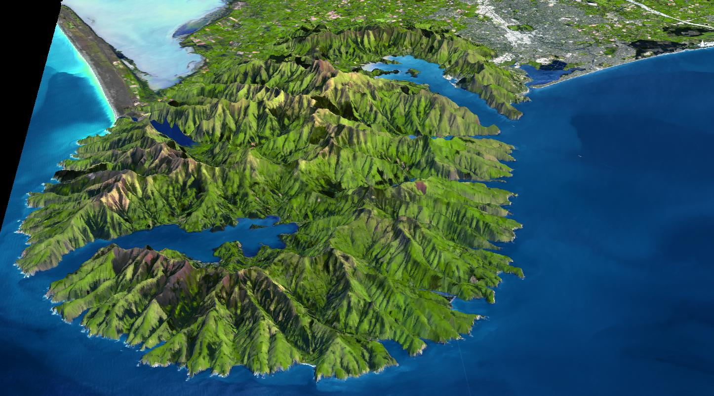 Oblique view of Banks Peninsula, New Zealand, originated from Terra satellite ASTER image.